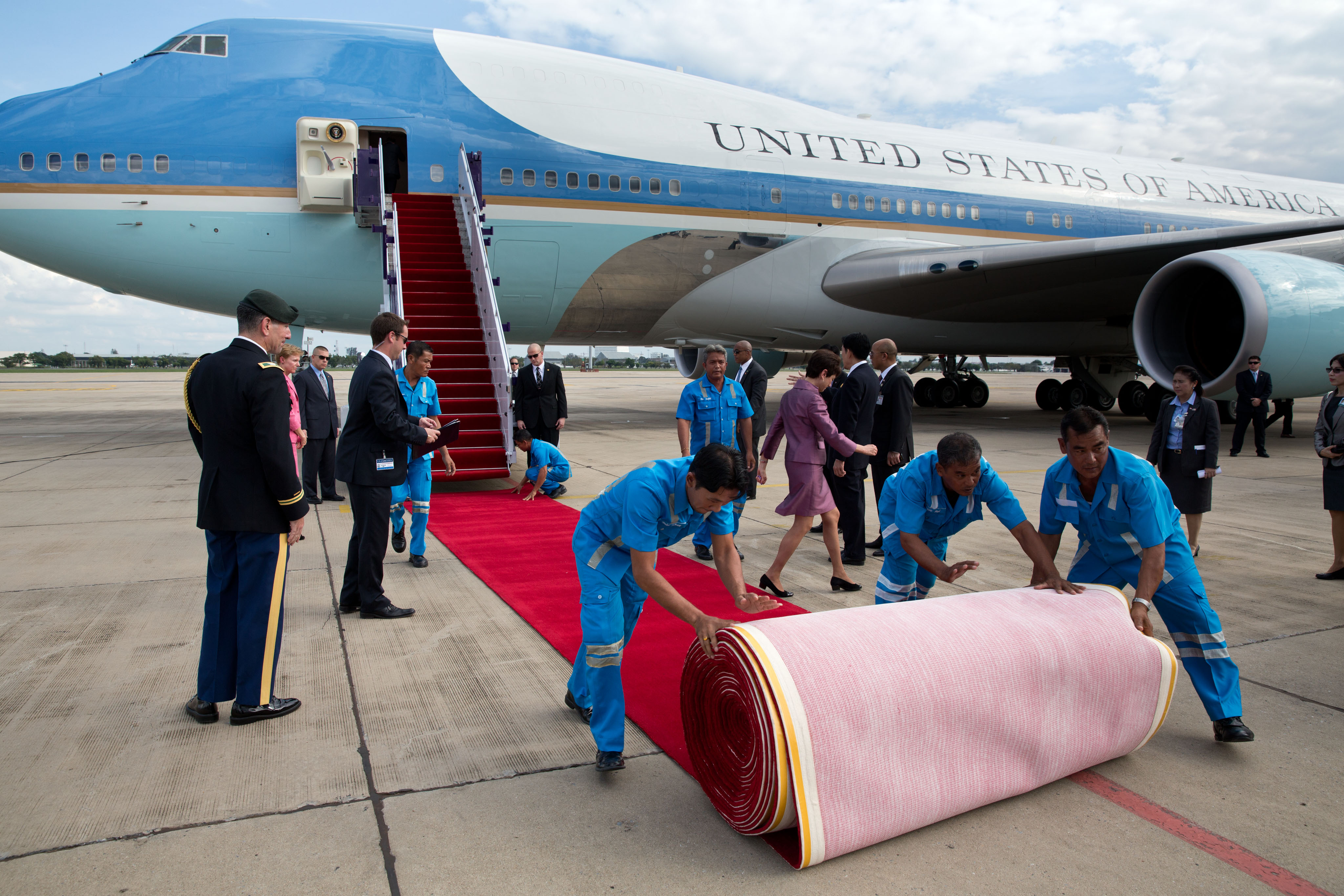 Workers prepare for an arrival ceremony to welcome United States President Barack Obama at Don Mueang International Airport in Bangkok on 18 November 2012.